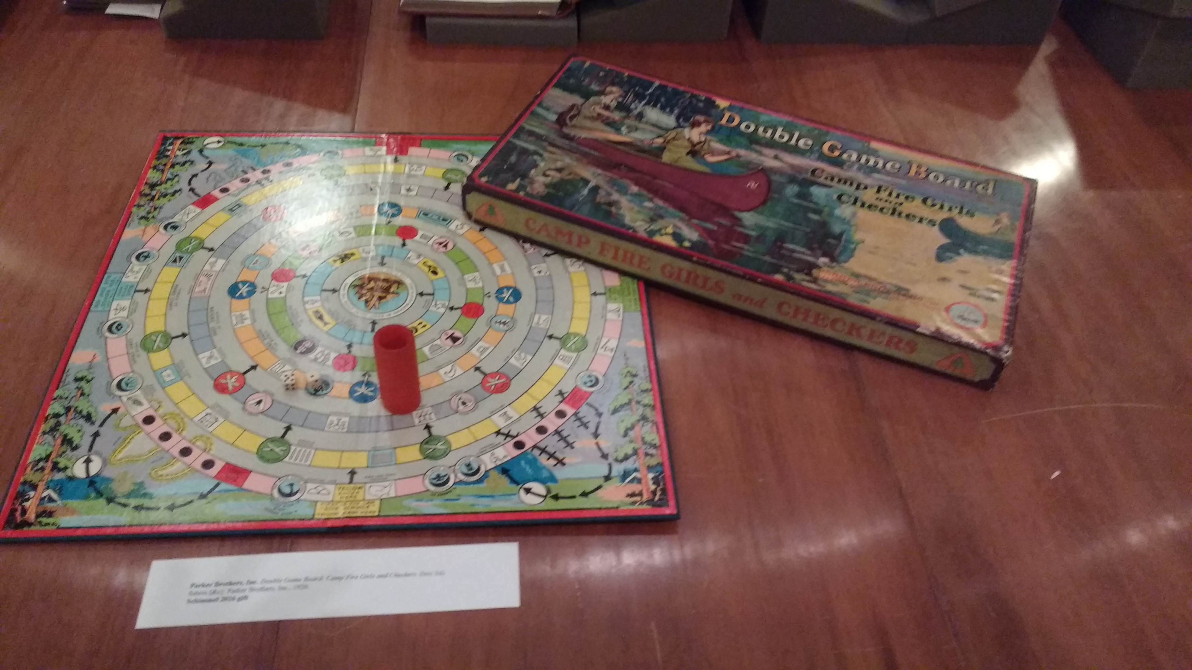 Double Game Board Camp Fire Girls and Checkers. Made by Parker Brothers Inc Salem Mass. New York and London, ca. 1926.